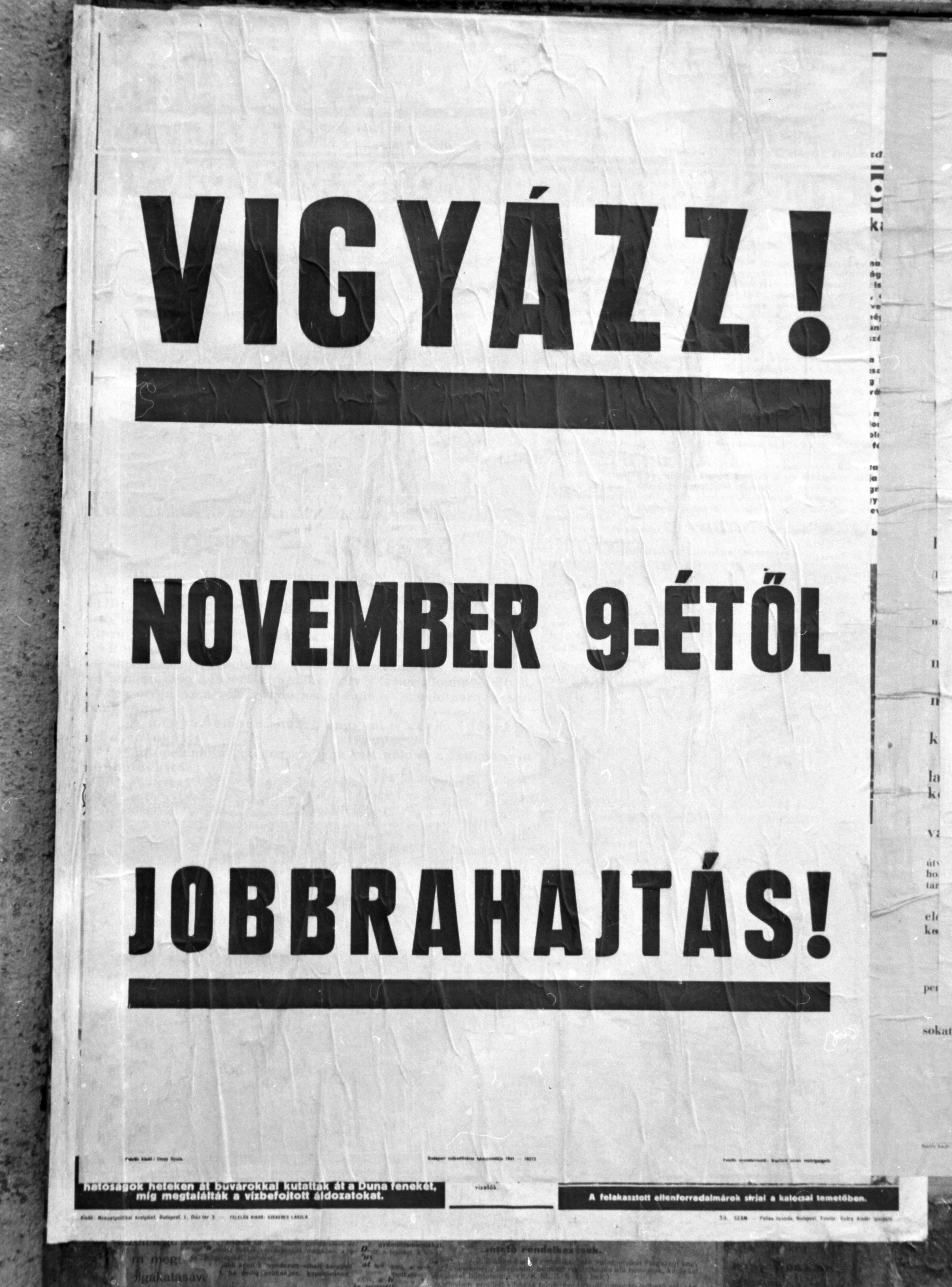 Location: Hungary, Budapest Tags: poster, label